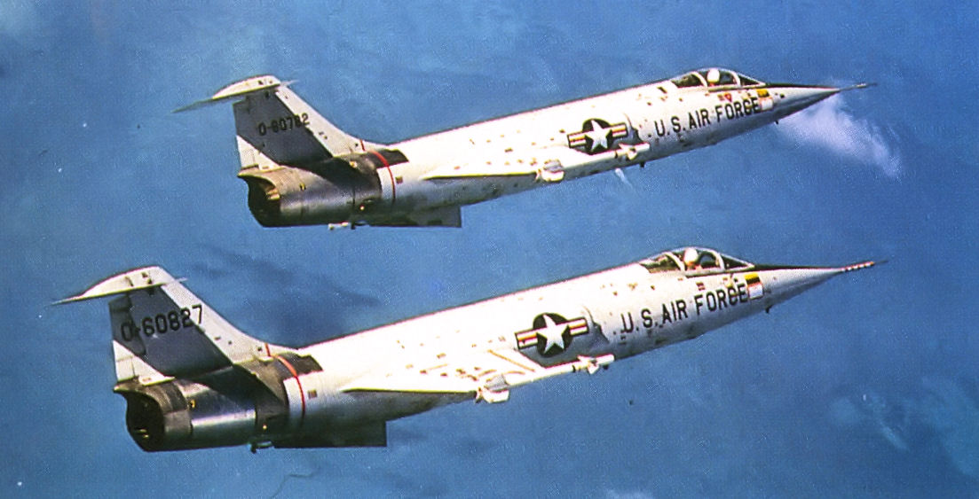 319th Fighter-Interceptor Squadron Lockheed F-104A-25-LO Starfighters Homestead AFB, Florida 1968 56-827 and 56-0752